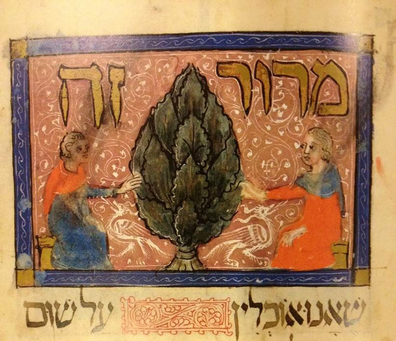 In the Sarajevo Haggadah, marror is depicted as an artichoke.